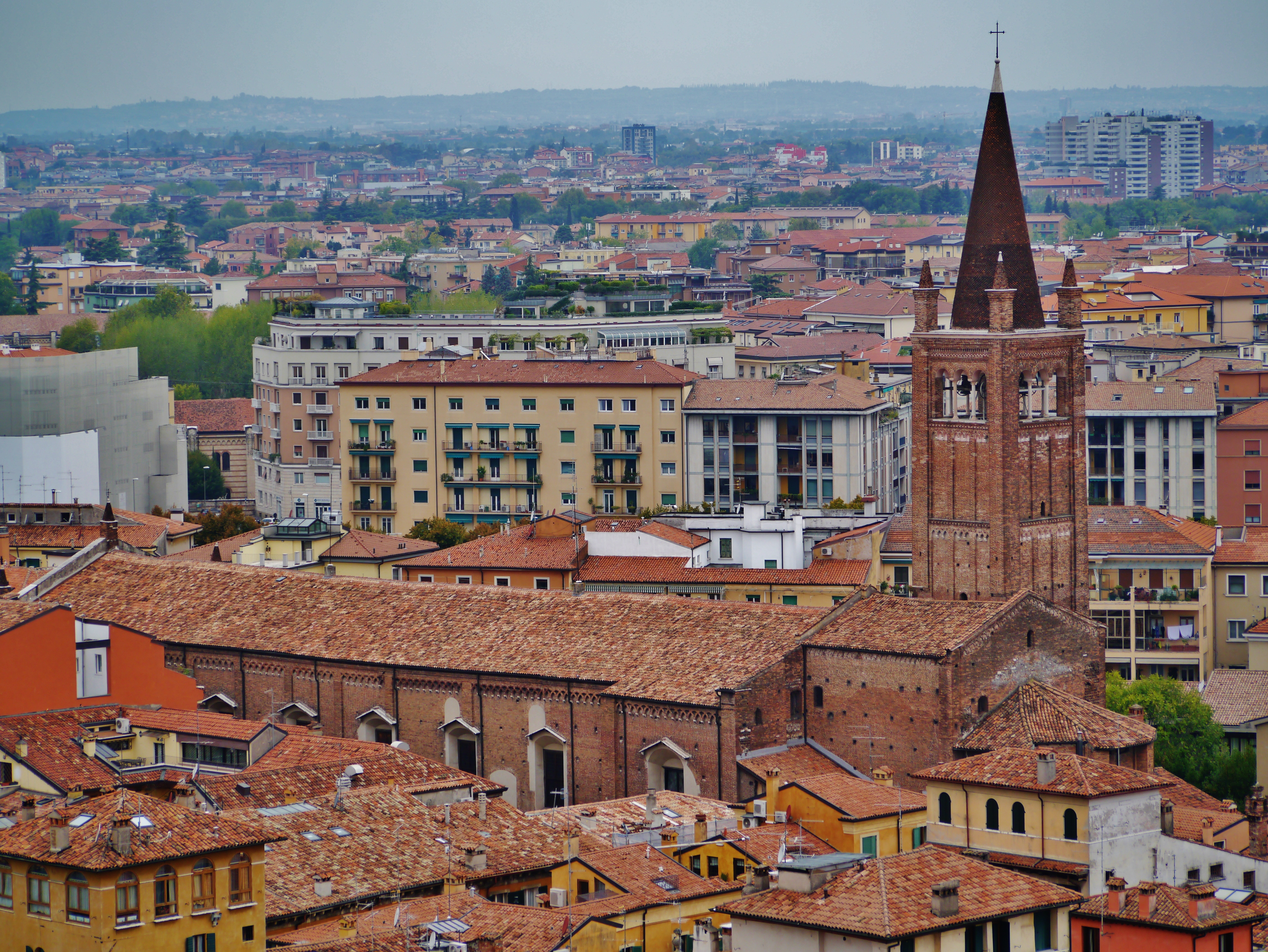 View from the Lamberti Tower to the Church of St. Eufemia, Verona, Province of Verona, Region of Veneto, Italy